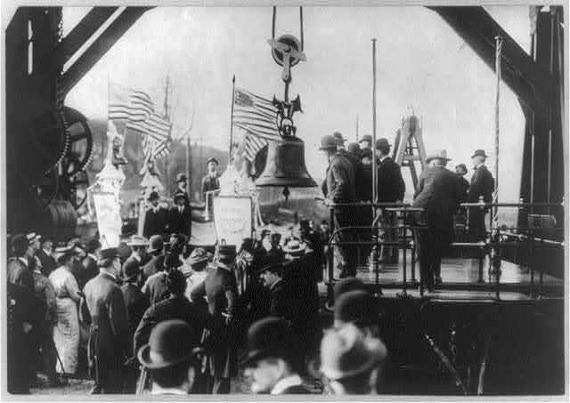 Liberty Bell - Transferring the Liberty Bell from truck to train at St. Louis after the Exposition, George Grantham Bain Collection (Library of Congress).